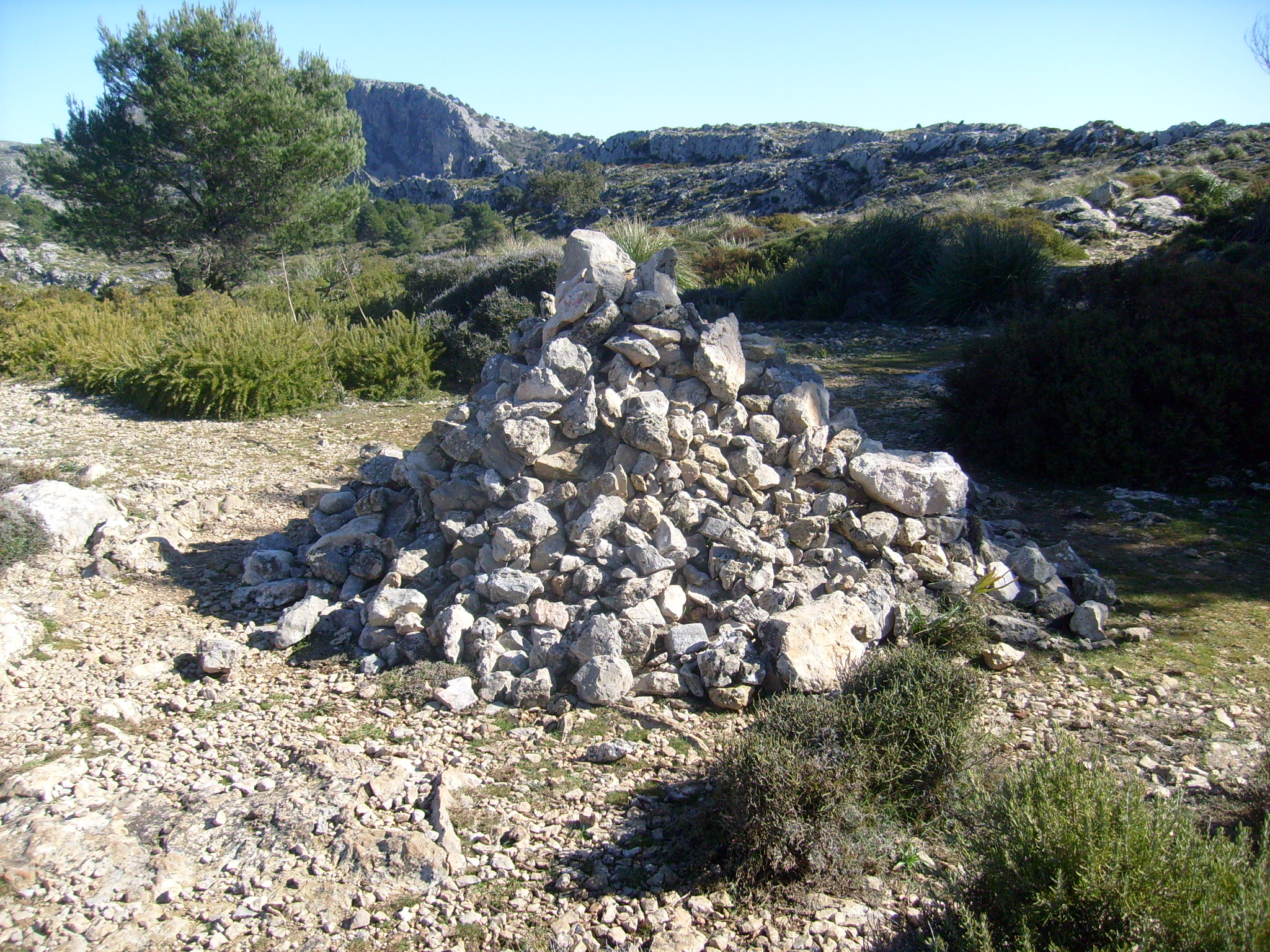 Cairn on Mola de Planícia